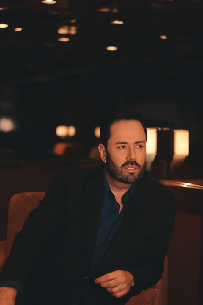 Evandro Hazzy